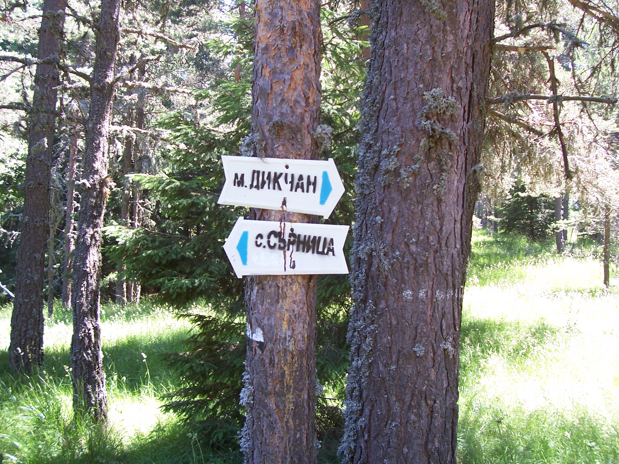 Mountain rout Dikchan - Sarnitsa.